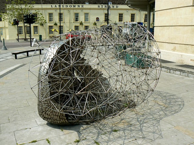 ‘The Head’, Calne This sculpture was created in response to a millennium competition initiated by the then Mayor of Calne in 2000. The winner was Rick Kirby with this work. The rear of the piece, with its open, incomplete lattice points to the challenges of the future.